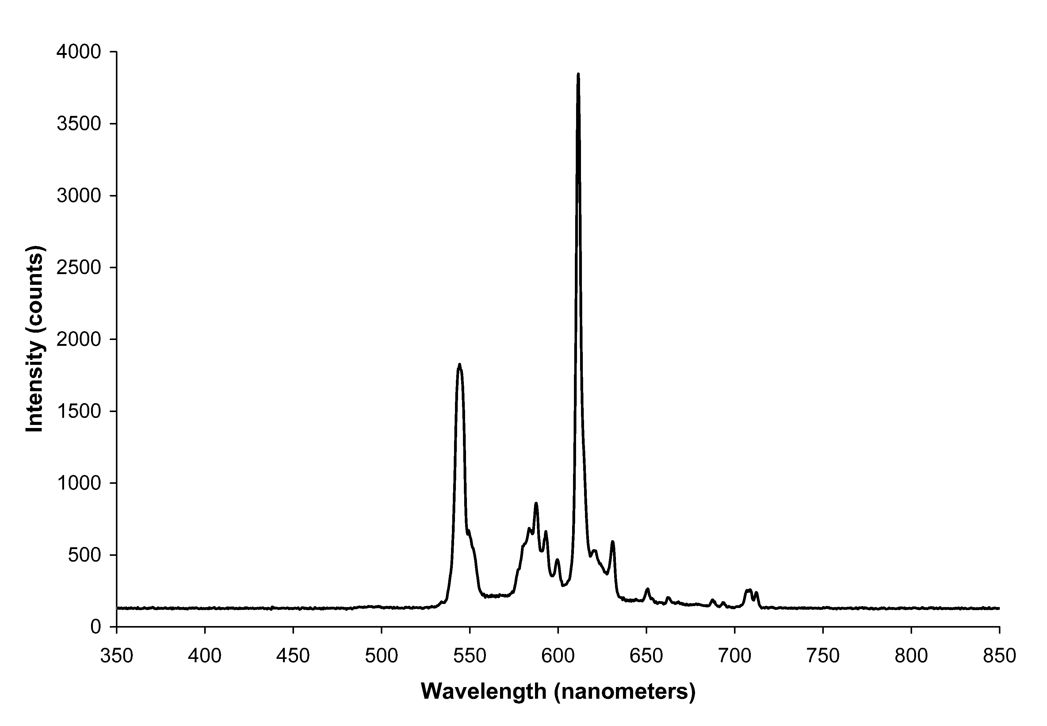 Spectrum of yellow fluorescent lights in a cleanroom. Spectrum taken by me using an Ocean Optics HR2000 spectrometer [1]. This spectrum is not calibrated for intensity.